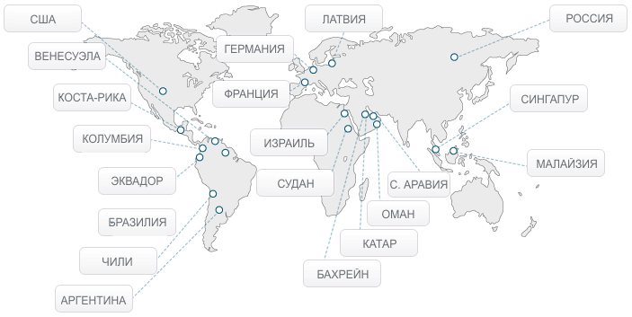 Отделения KTHF в мире